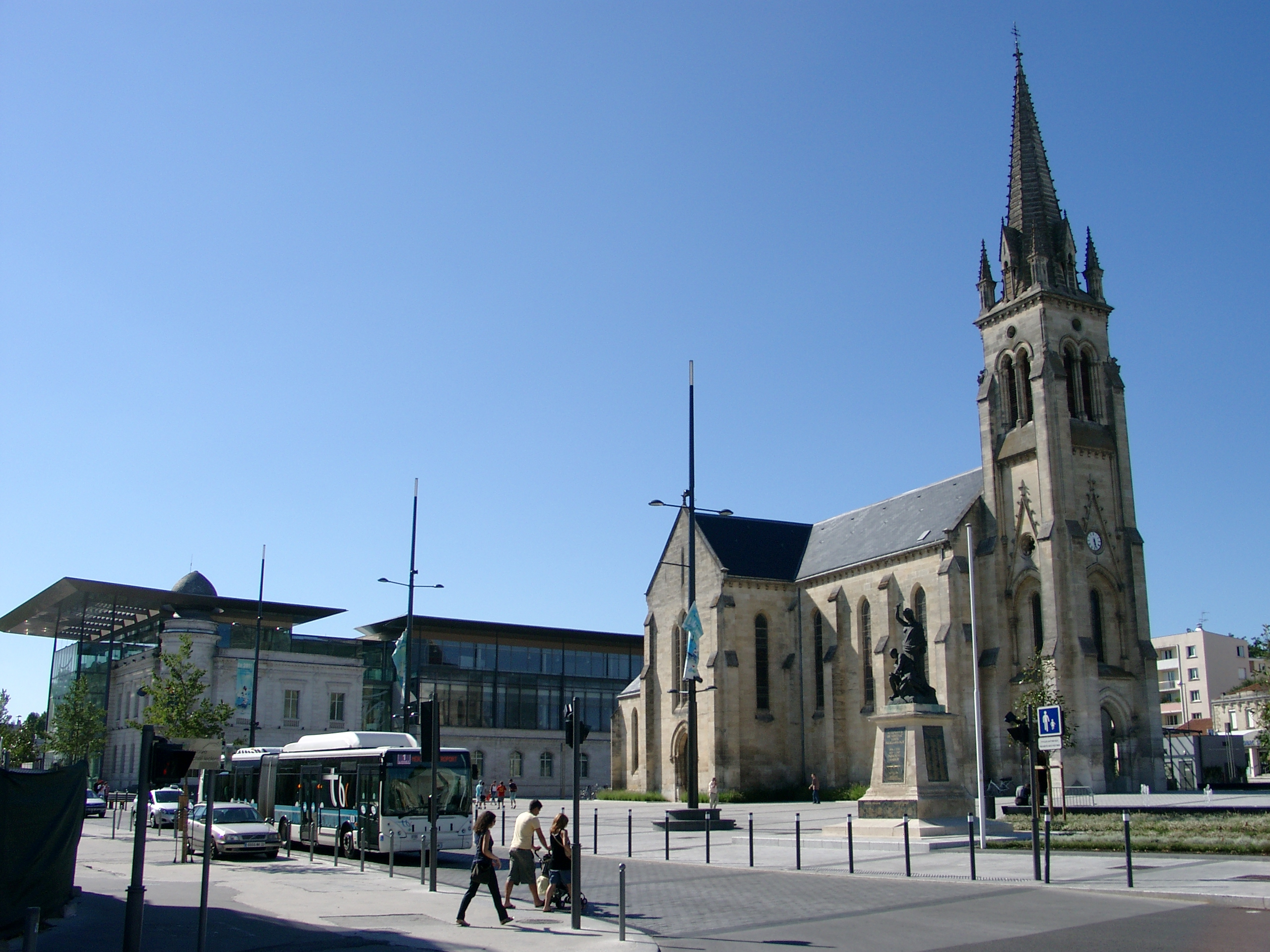 Centre of Merignac city (France, Gironde). Saint Vincent catholic church, mediatheque in background.